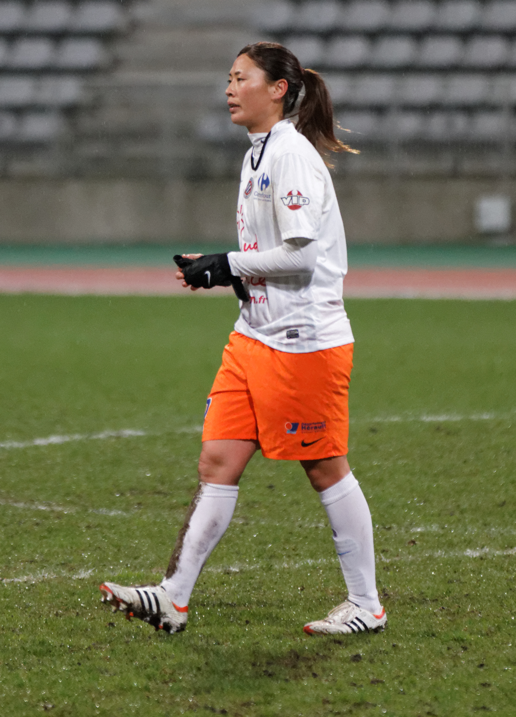 PSG-Montpellier, January 13th, 2013.